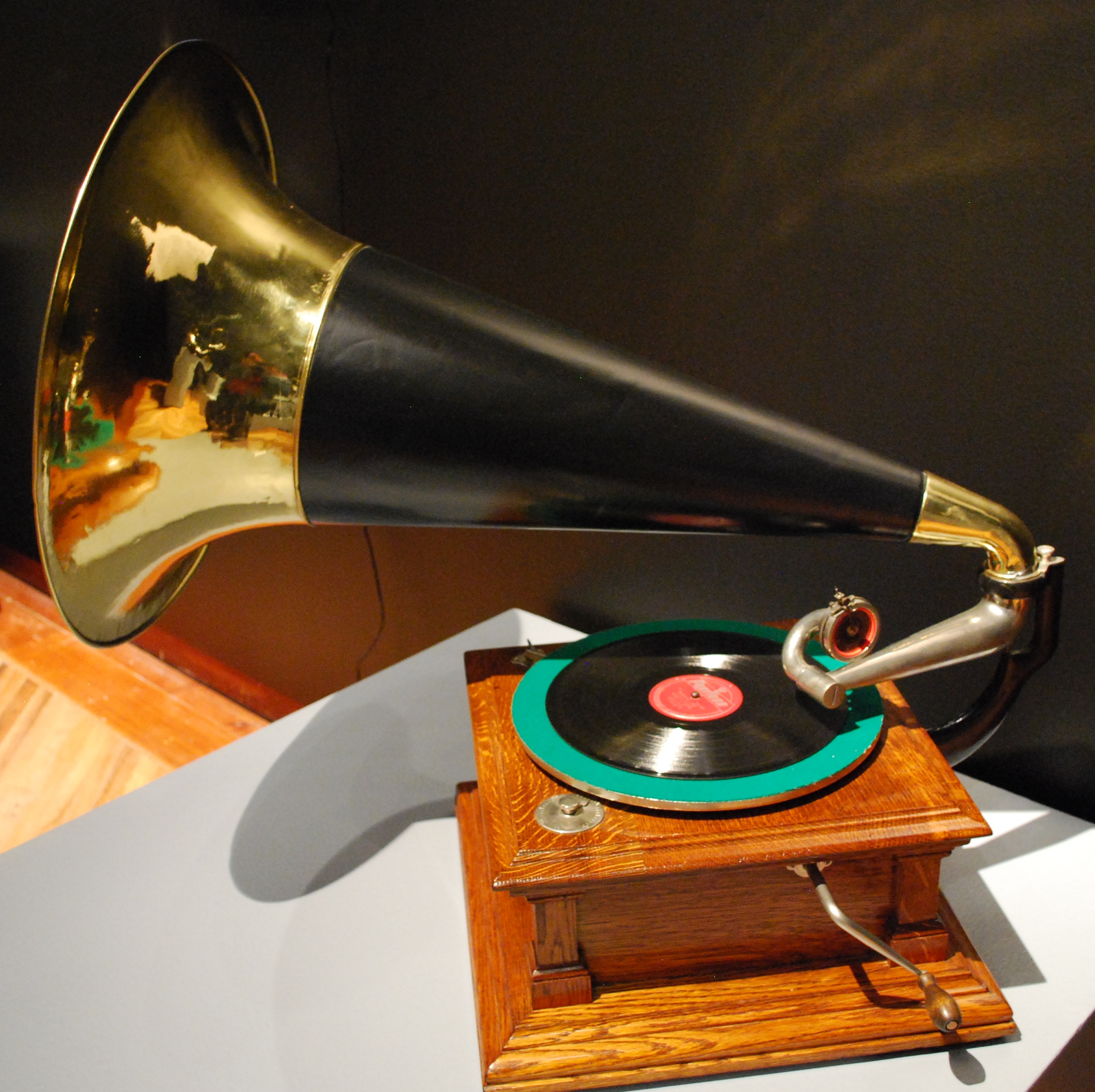 Victor P 1899 phonograph from the Salvador Velez collection